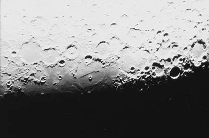 Image taken from the earth of the Moon, during the ANSU Flat project to investigate anomalous lunar phenomena. The Image is owned by Nicola Tosi of the Ansu association, which authorized this publication. This image is uploaded here to contribute to a Wikipedia page about the Ansu association.